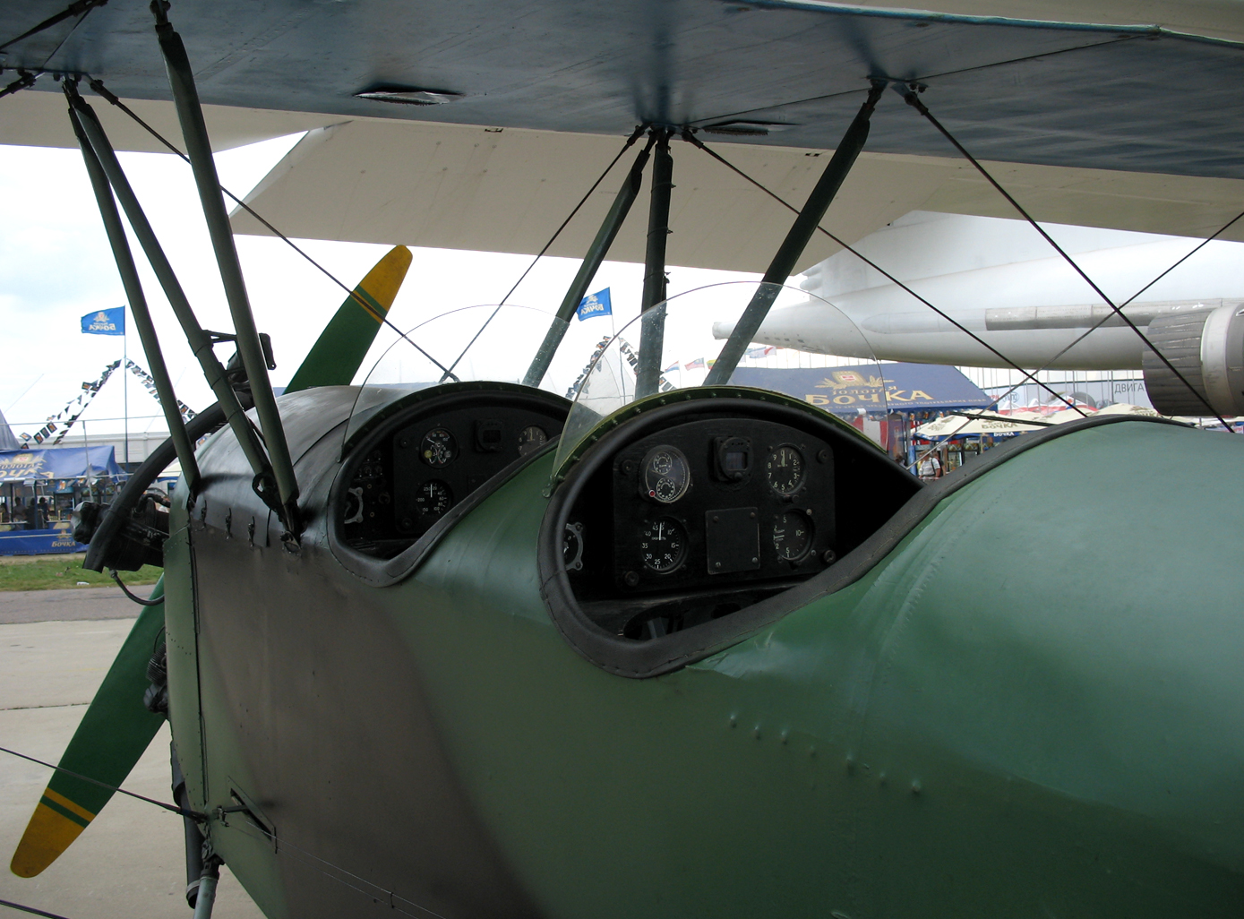 Cabins of pilots of Po-2 (the international aerospace salon MAKS-2007)